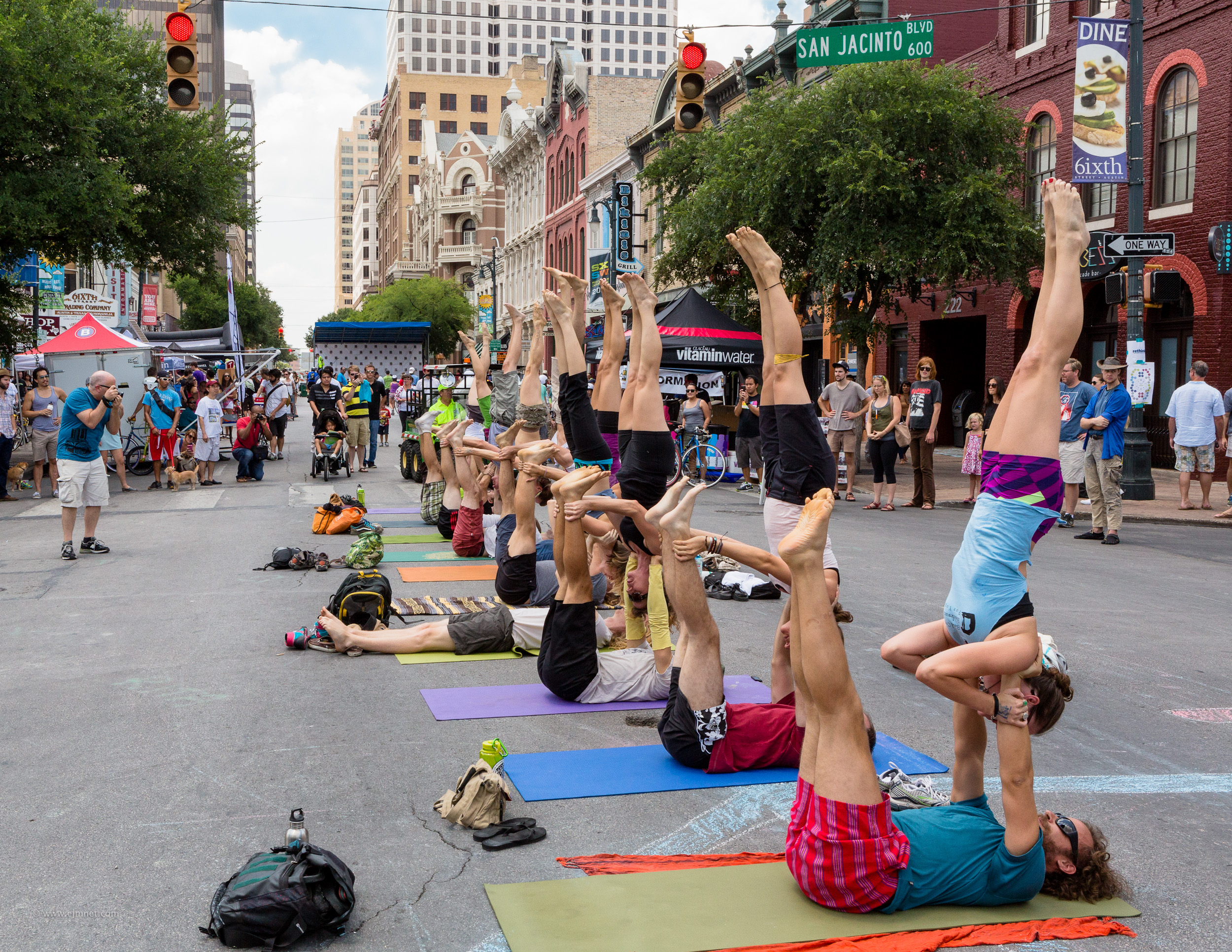 Acro Yoga Flash Mob at the Viva St festival in downtown Austin. 6th Street at San Jacinto.